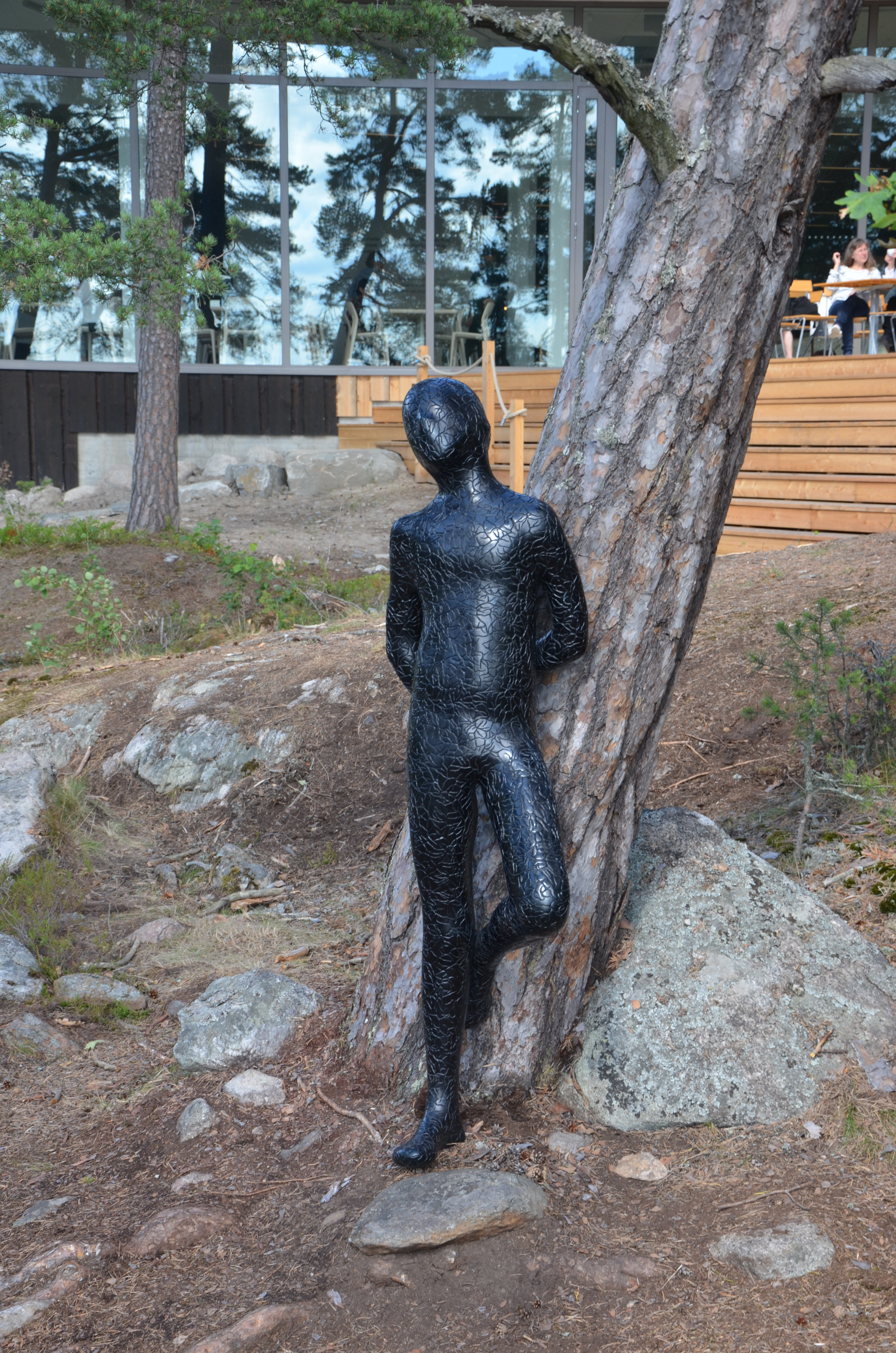 Maria Miesenbergers lutande figur, svartpatinerad brons, 2012, utanför Konsthallen Artipelag